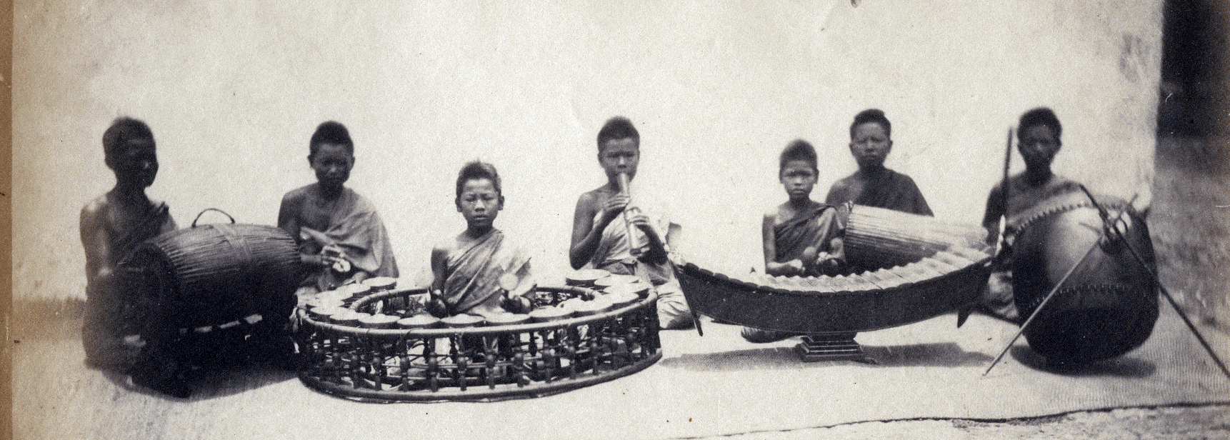 Siamese orchestra in 1900